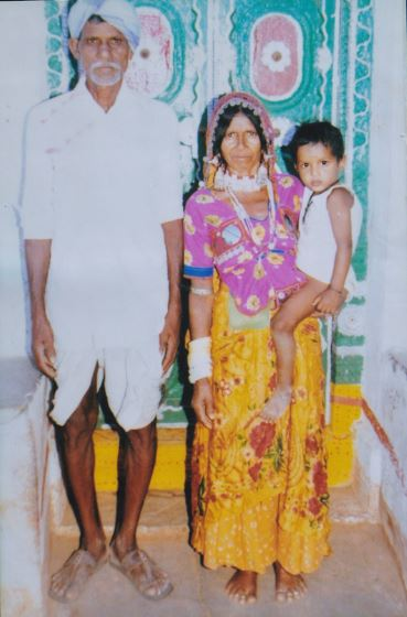 a banjara family